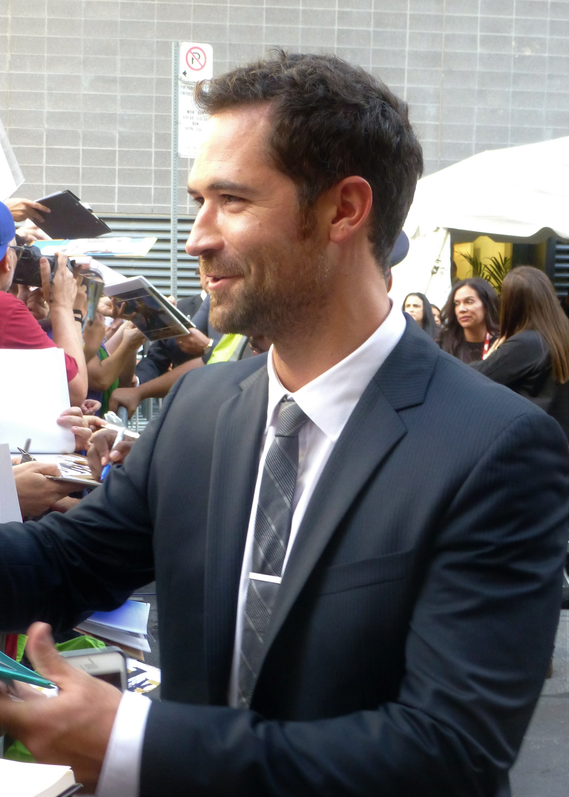 Manuel Garcia-Rulfo at the press conference of The Magnificent Seven, 2016 Toronto Film Festival